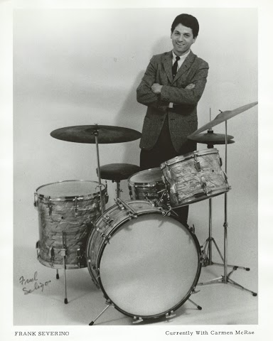 Frank Severino photo while on tour With Carmen Mcrae